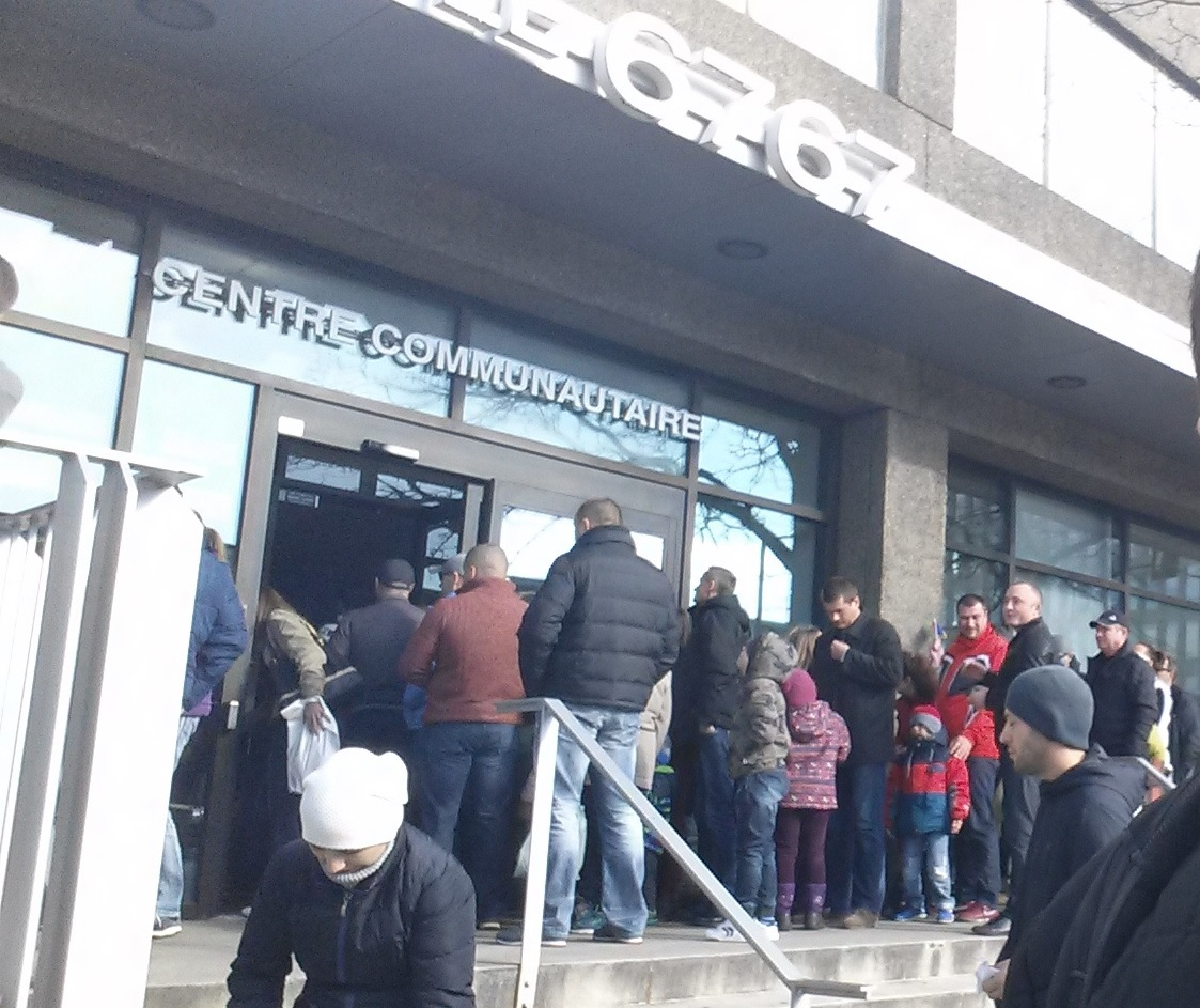 Voters in line at a polling station at a community centre (at 6767 Côte-des-Neiges Road, Montreal) on November 13, 2016, during the second round of the Moldovan presidential election, 2016.